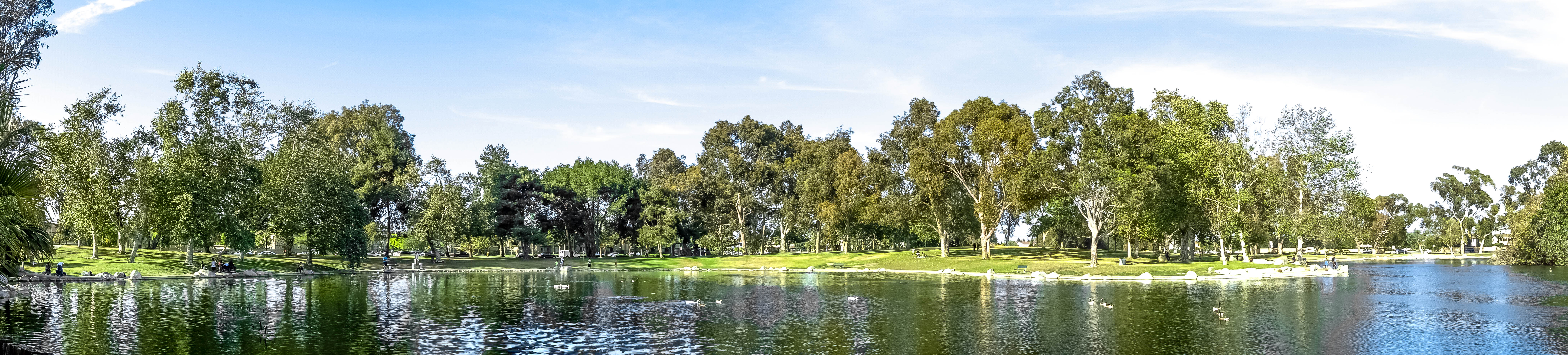 Mile Square Park Panorama shot taken on June 1st, 2014